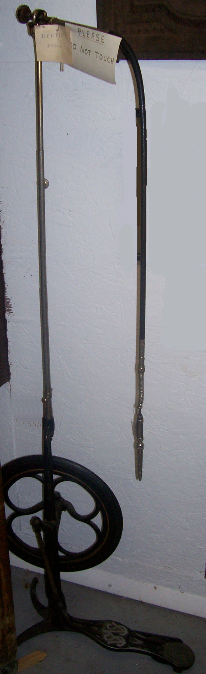 A historic foot-powered dental drill. Picture taken at the Wabeno Logging Museum in Waubeno, Wisconsin, U.S.